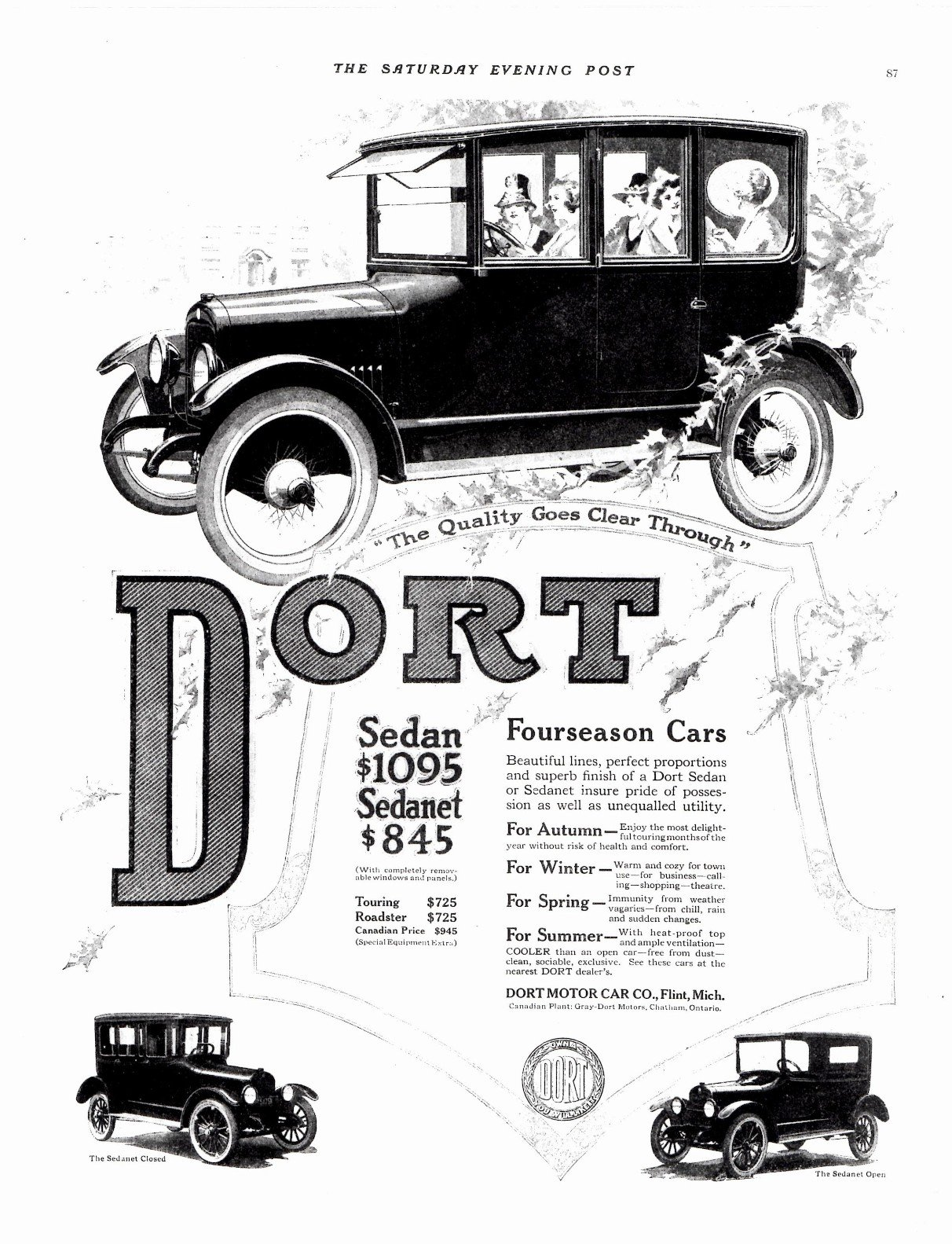 Josiah Dallas Dort was an early associate of William C. Durant, the founder of General Motors. Dorts were produced from 1915 to 1924 in Flint.